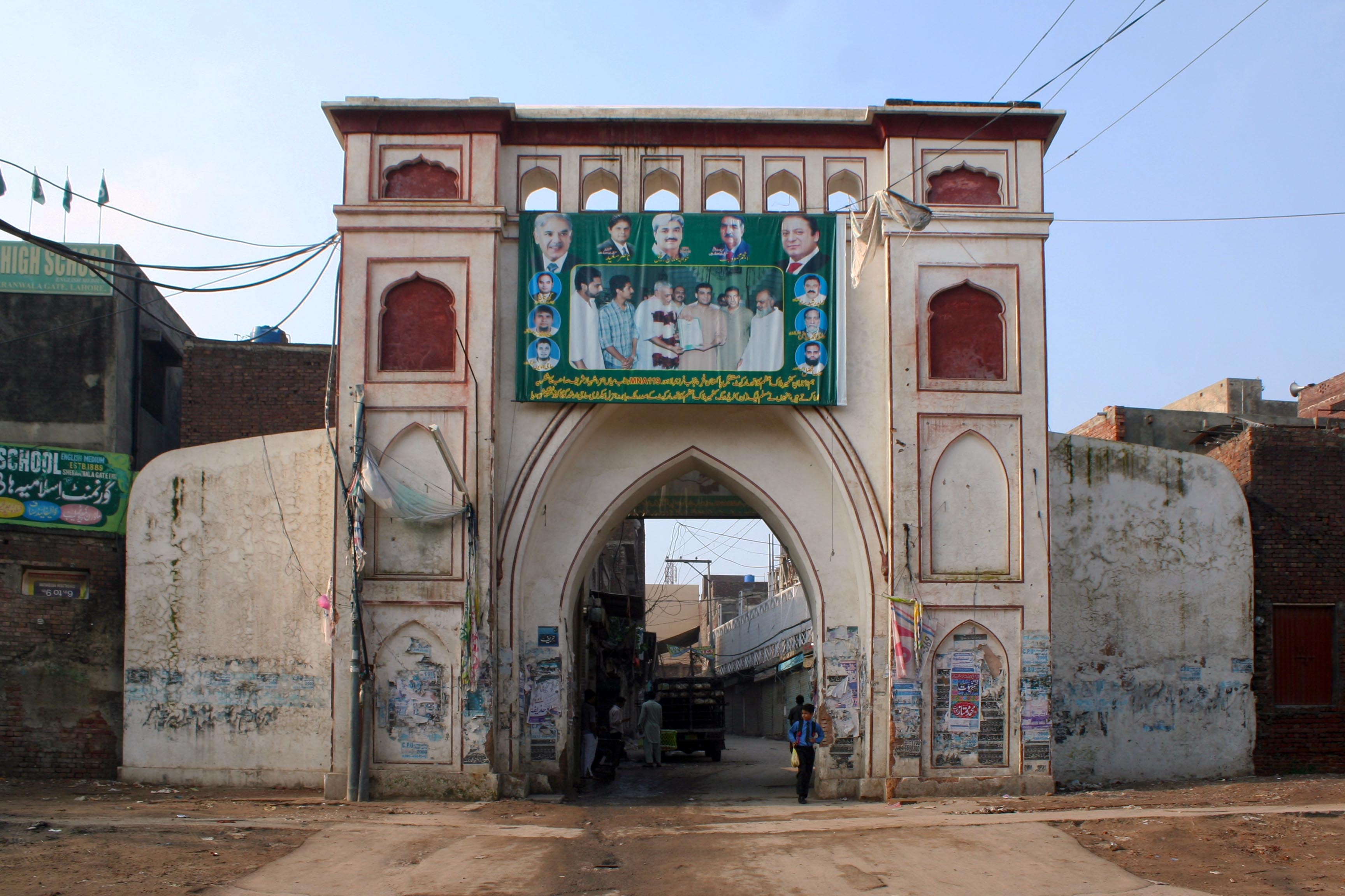 Shairanwala Gate This is a photo of a monument in Pakistan identified as the PB-54